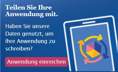 Screenshot from EUODP